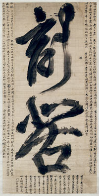 Song Siyeol signboard of Gakgo